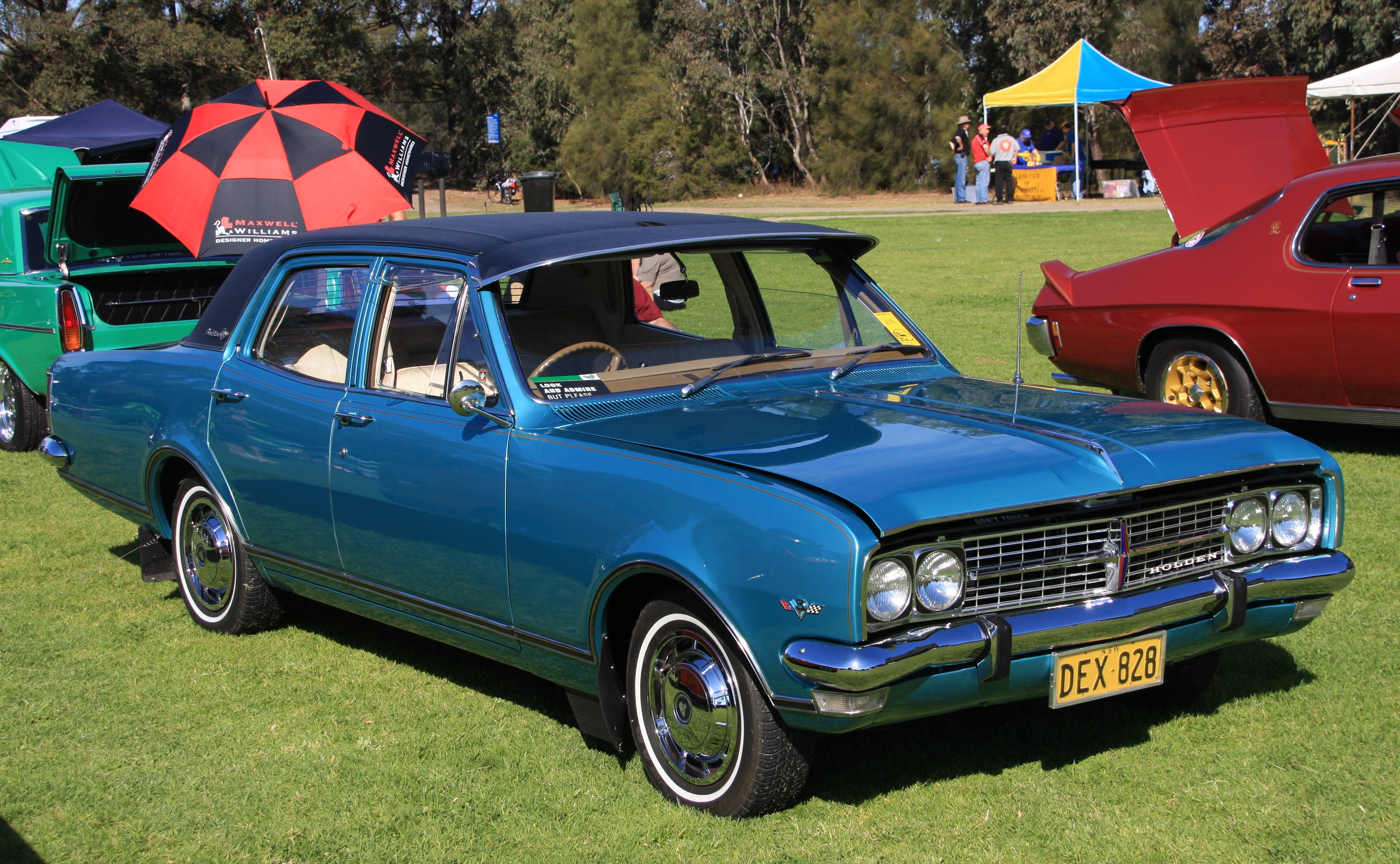 Holden HK Brougham (1968-1969)